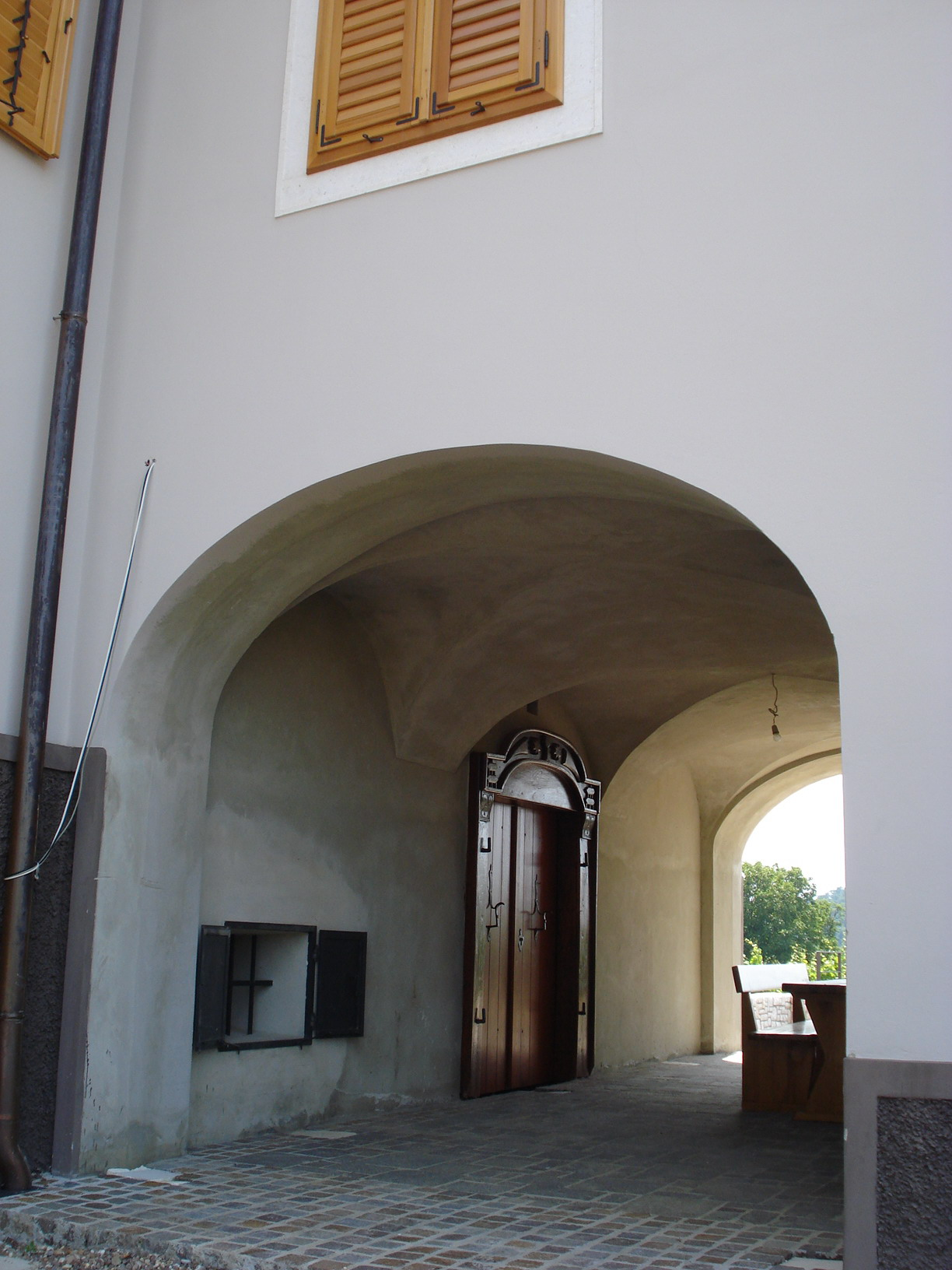 Banfi Castle in Štrigova - arcade